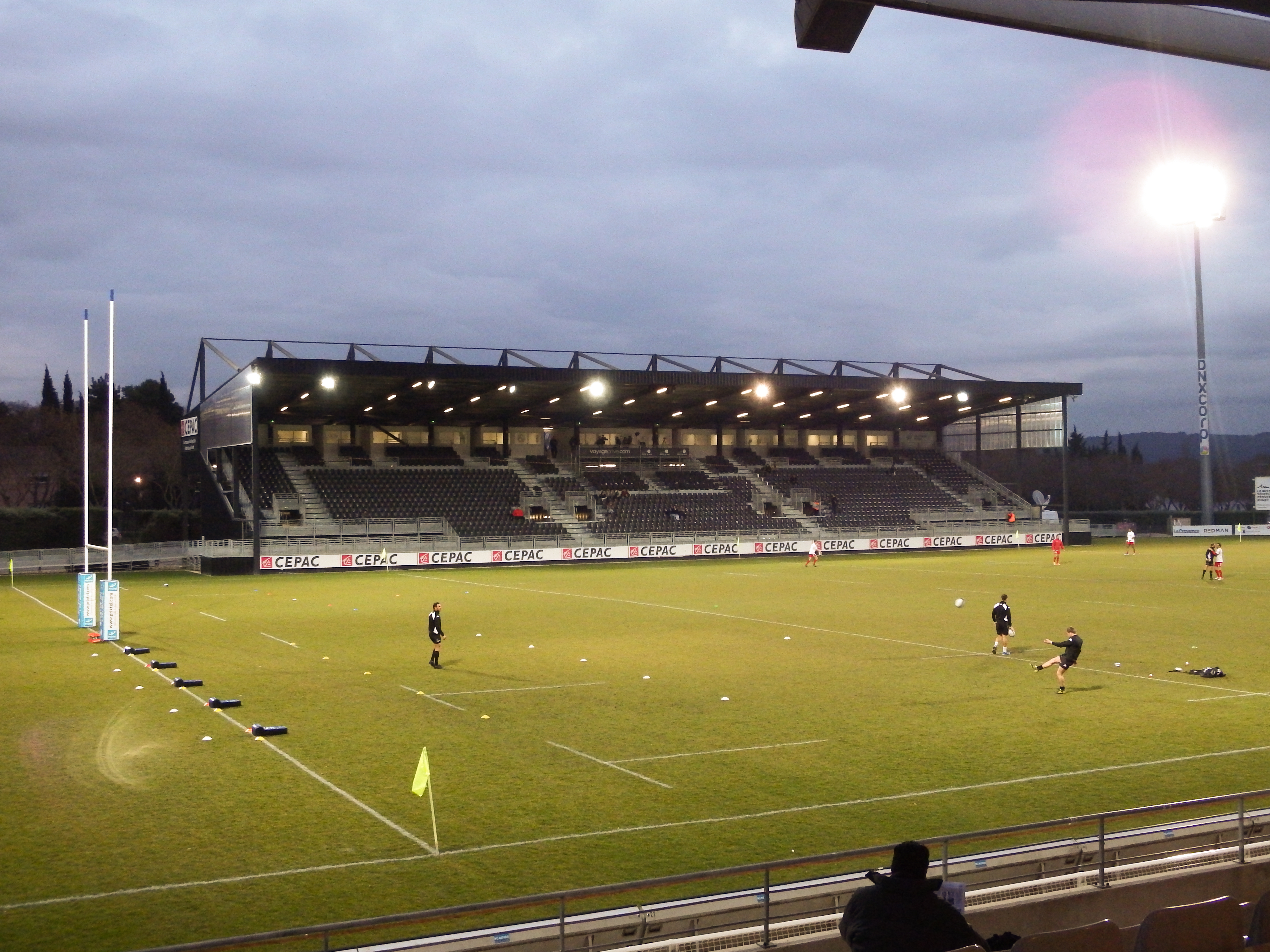 Pro D2 2015-2016 — 26 February 2016, Stade Maurice-David. Match between: Provence rugby — US Dax